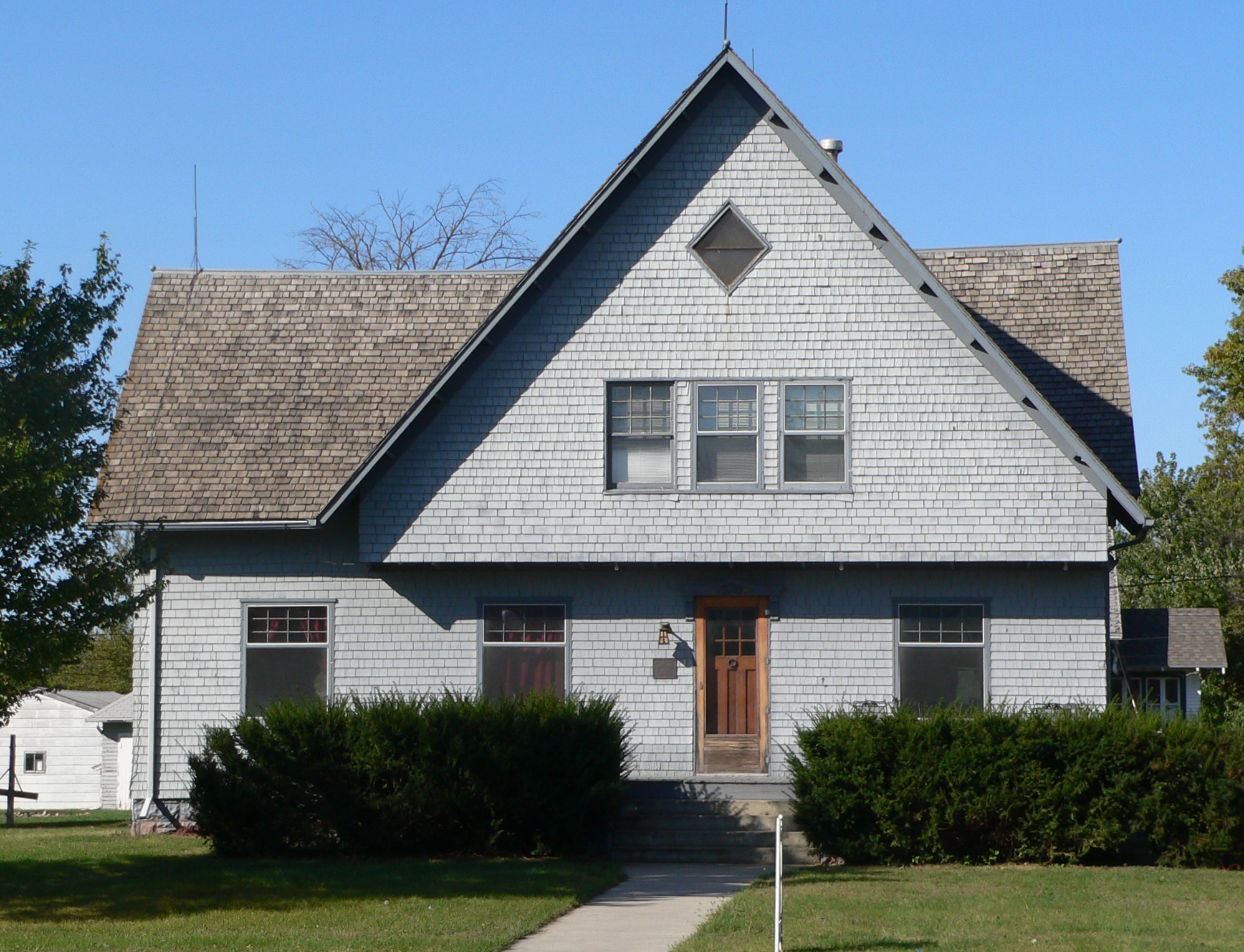 Victor E. Wilson house in Stromsburg, Nebraska; seen from the east.